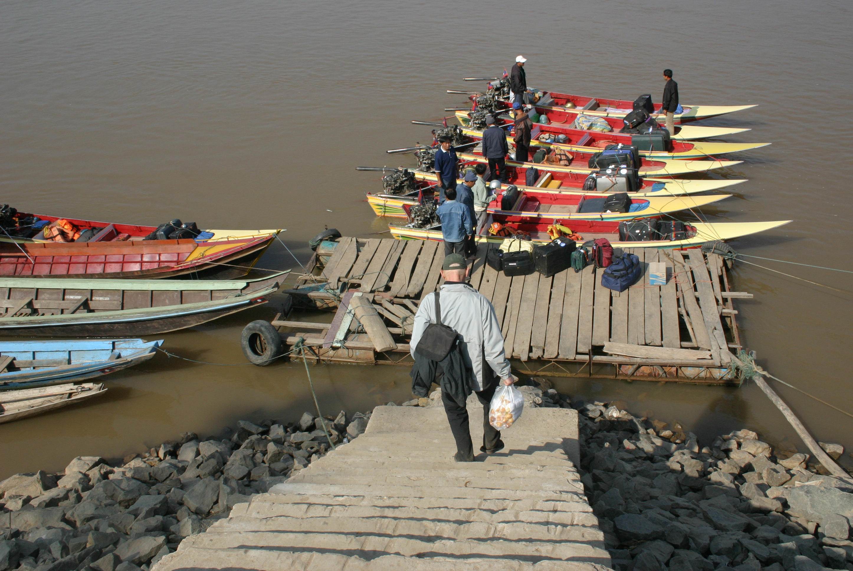 Place and boat station in the Lao province of Bokèo.